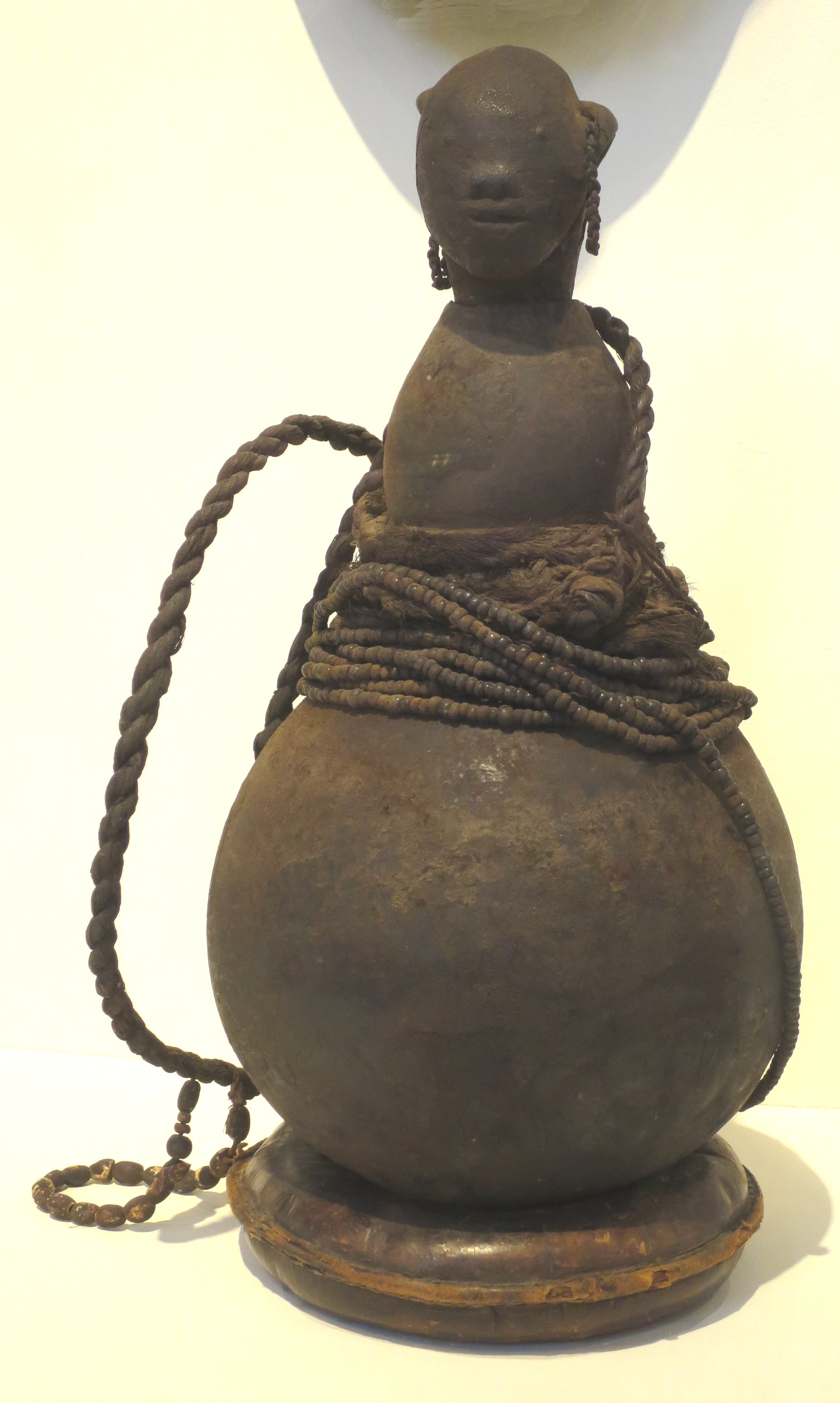 Shaman's stoppered gourd vessel, Mbugu people, northeast Tanzania, late-19th-early 20th century, gourd, beads, fiber, metal, patina, Honolulu Museum of Art accession 2015-1-01